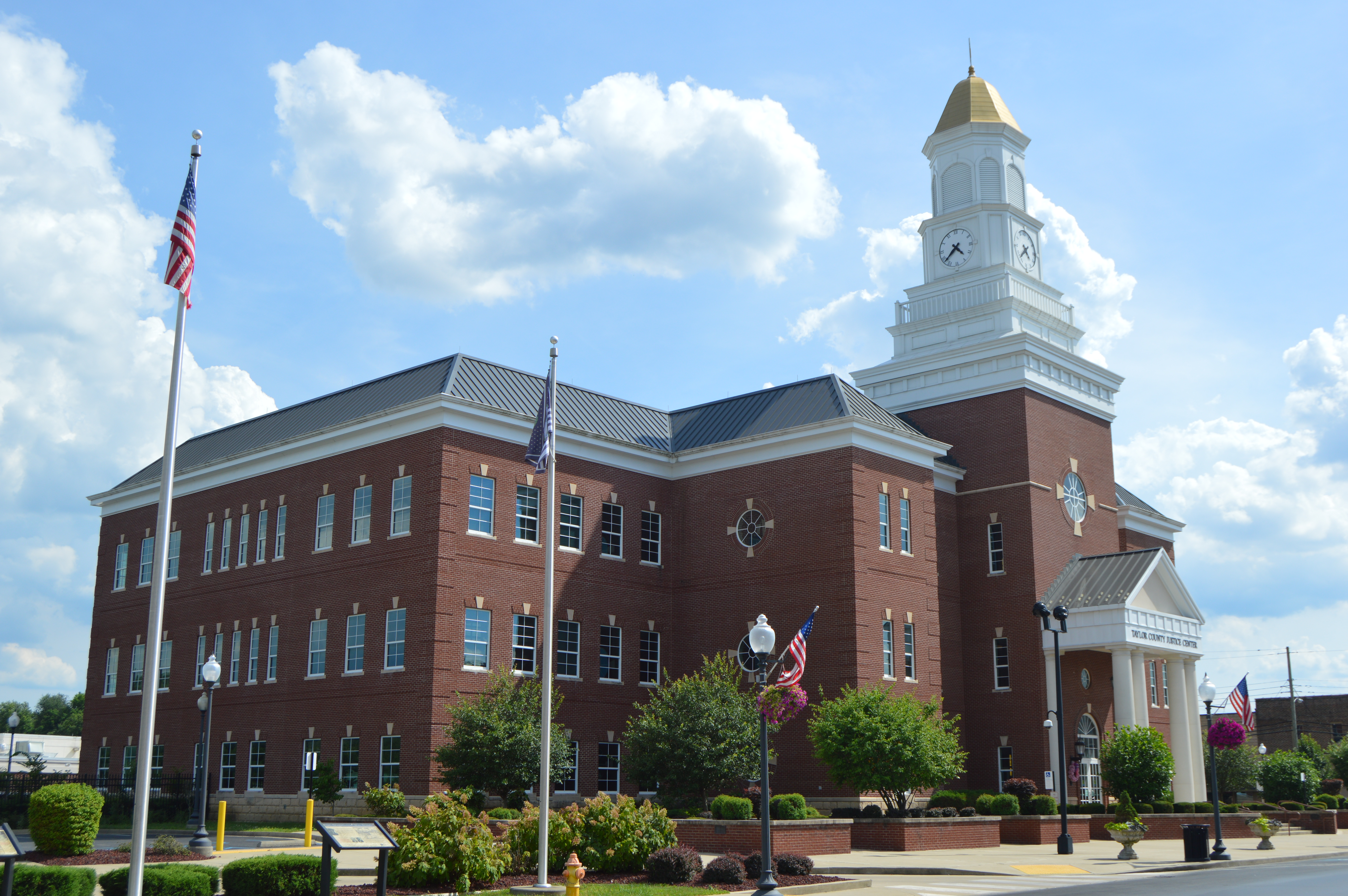 Front and northeastern side of the Taylor County Courthouse, located on Main Street at its intersection with Central Avenue (Kentucky Route 70) in downtown Campbellsville, Kentucky, United States.